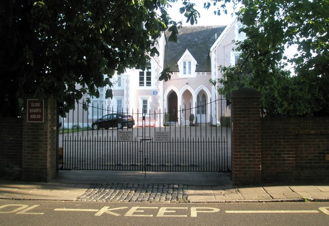 Entrance to Portsmouth High School for Girls, near to Southsea, Portsmouth, Great Britain.